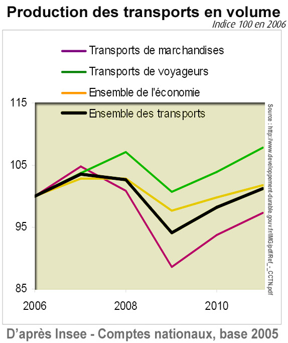 Evolution of statistics "Production of transport volume (France)" from data from "Comptes des transport 2011" (Accounts 2011 for french transport)